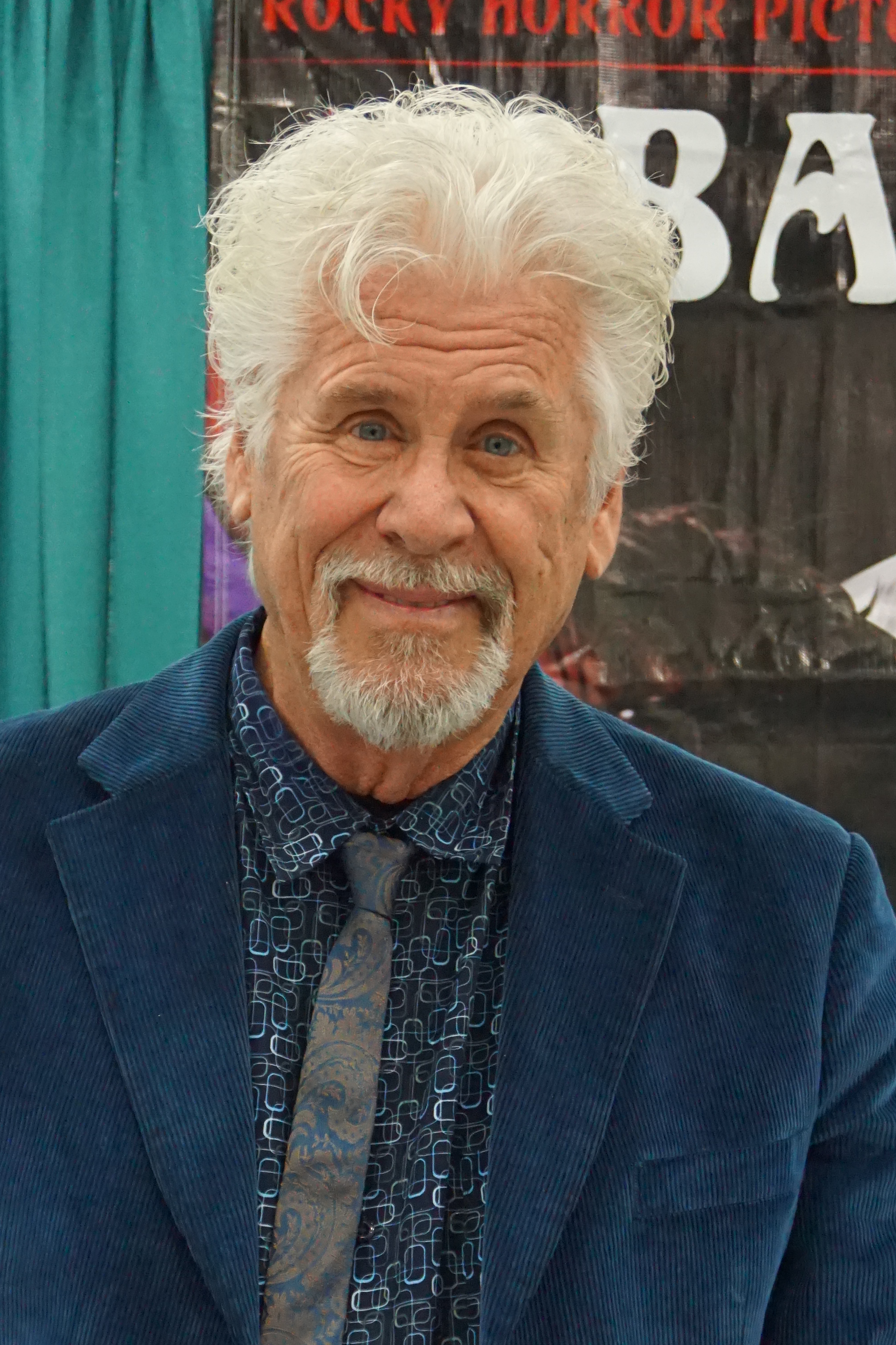 Barry Bostwick in 2019